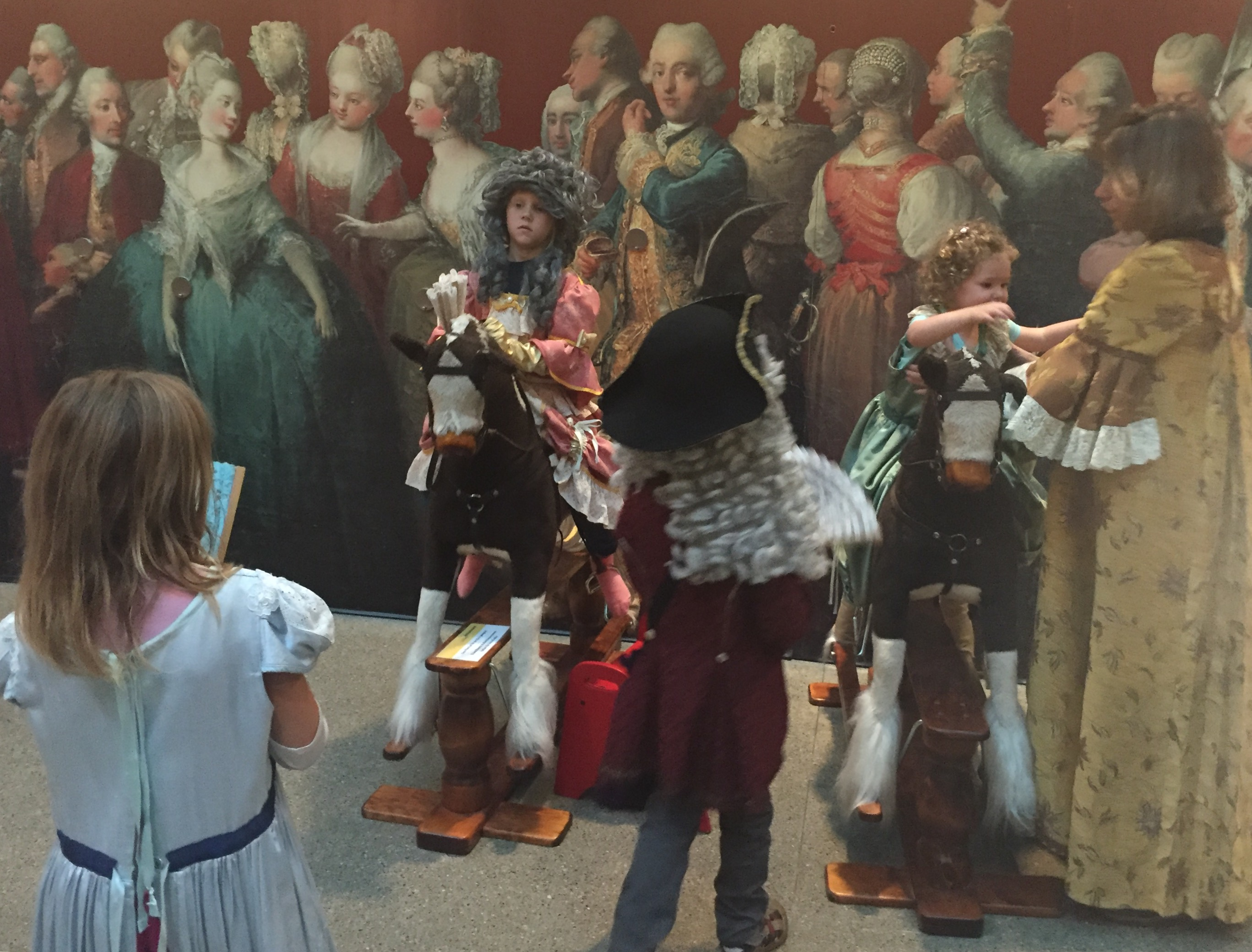 Kindermuseum_kleiner Mozart